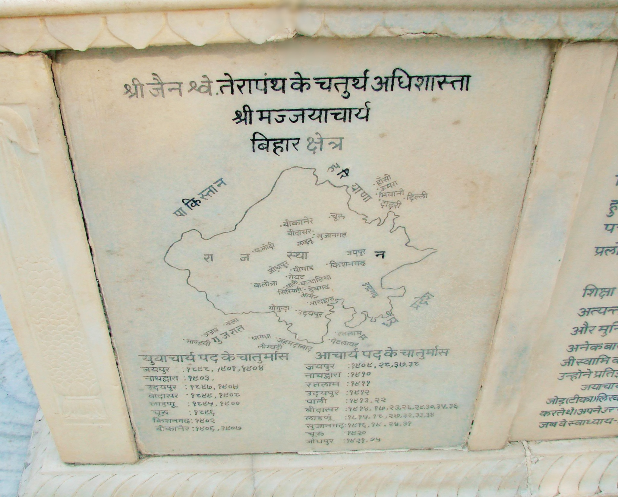 A part of the inscription from one side of Shrimad Jayacharya Samadhi in Jaipur . Shrimad Jayacharya was the 4th Aacharya of Shwetambar Terapanth Religious order